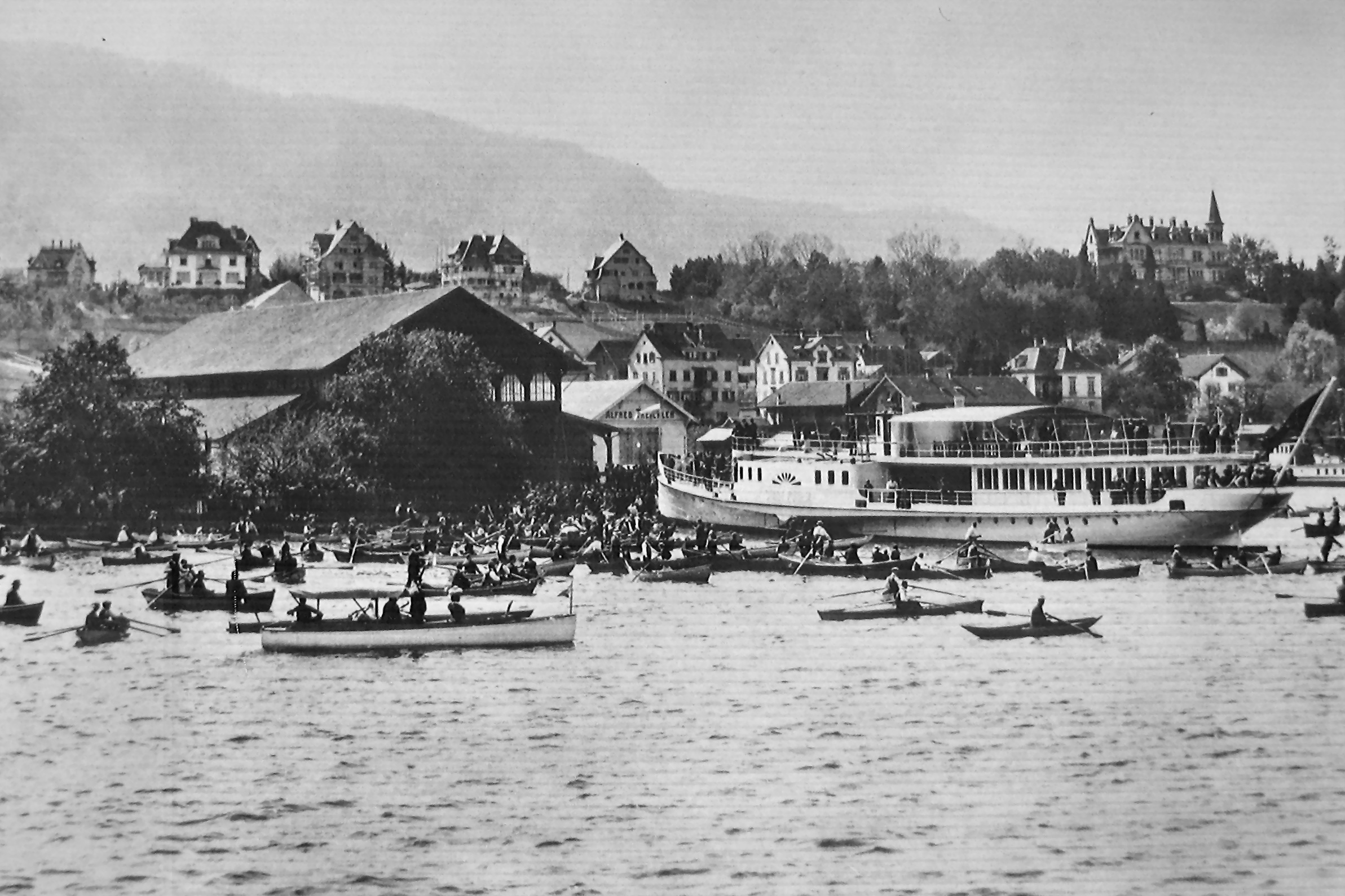 Zürichsee-Schiffahrtsgesellschaft (ZSG) : Paddle steamship «Stadt Zürich» (1909) at Zürich-Wollishofen.